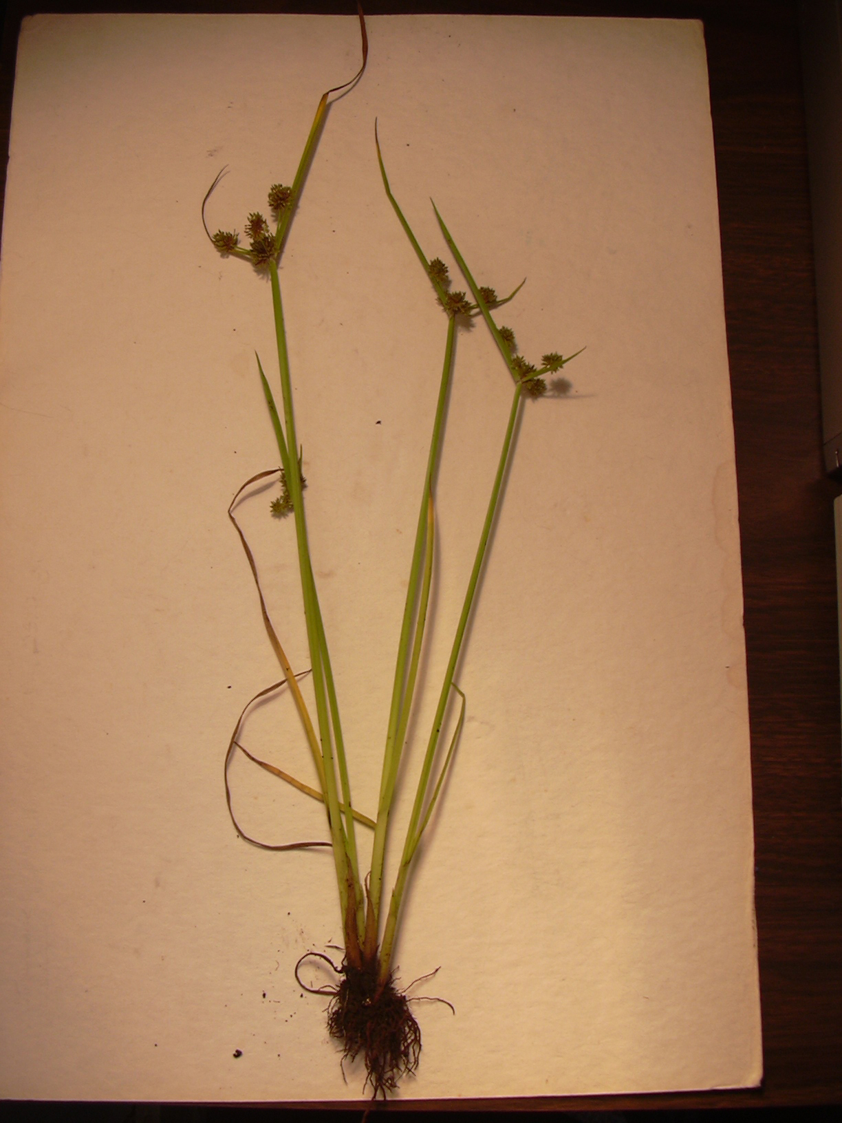 Cyperus difformis (plant). Location: Maui, Hana Hwy